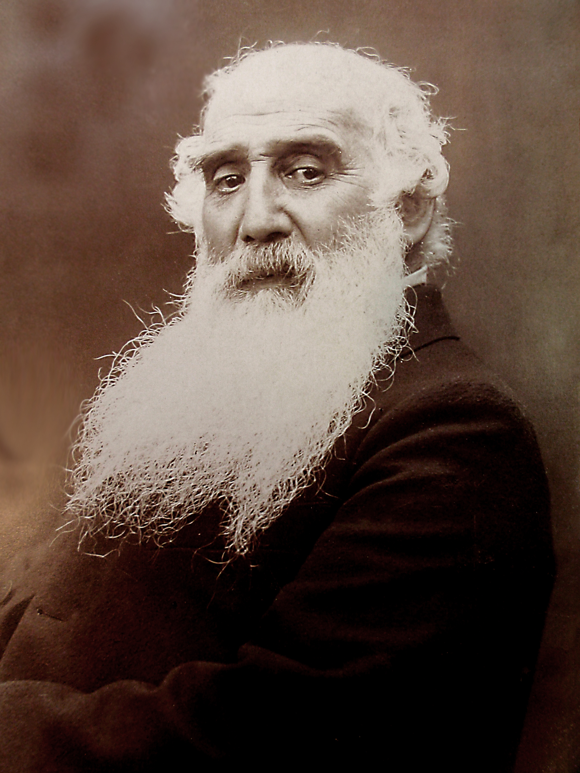 Photo portrait of Camille Pissarro